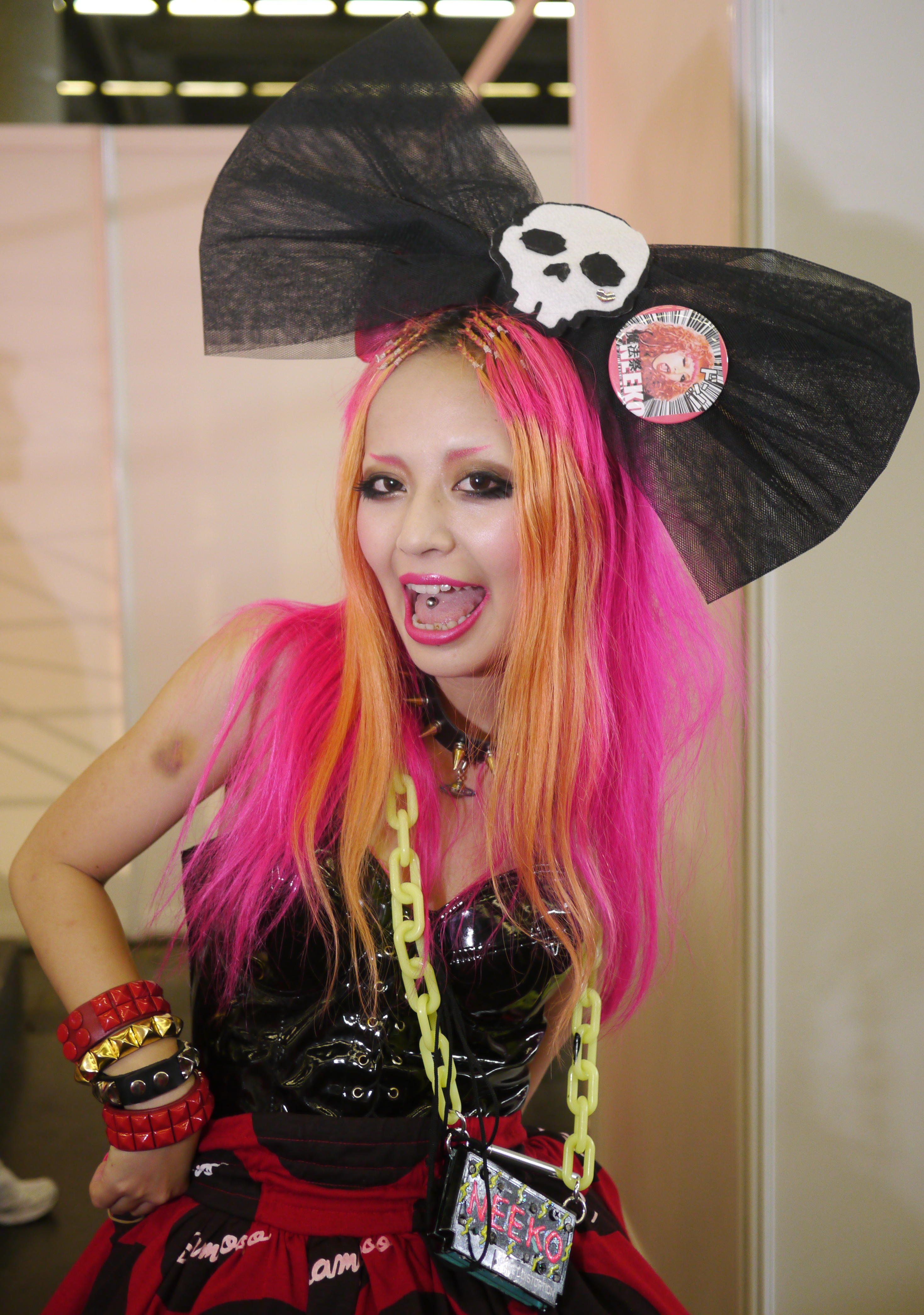 Japan Expo Festival, 12th impact